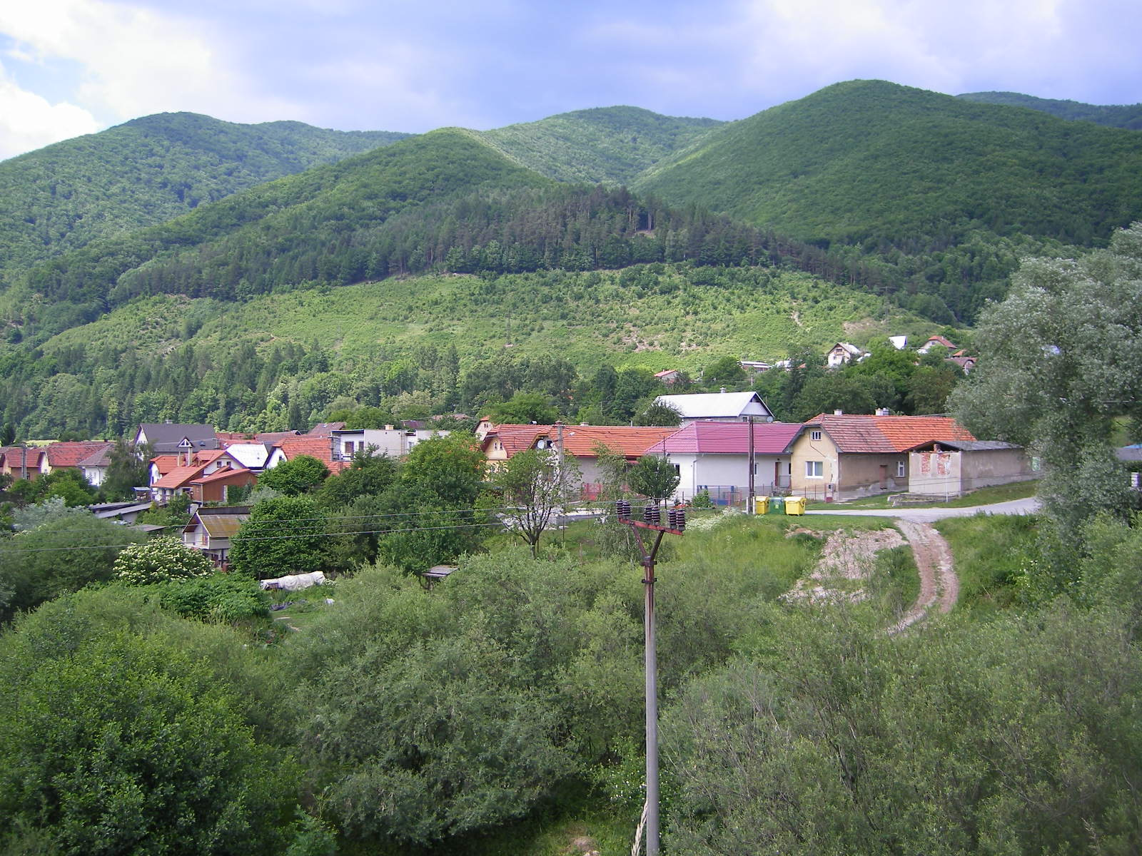 Lipovec